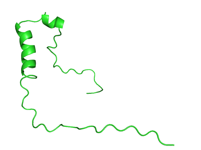 This representation of the Krüppel Associated Box domain was produced using data from the Protein Data Bank and the Pymol software program, for the article: Krüppel Associated Box domain.